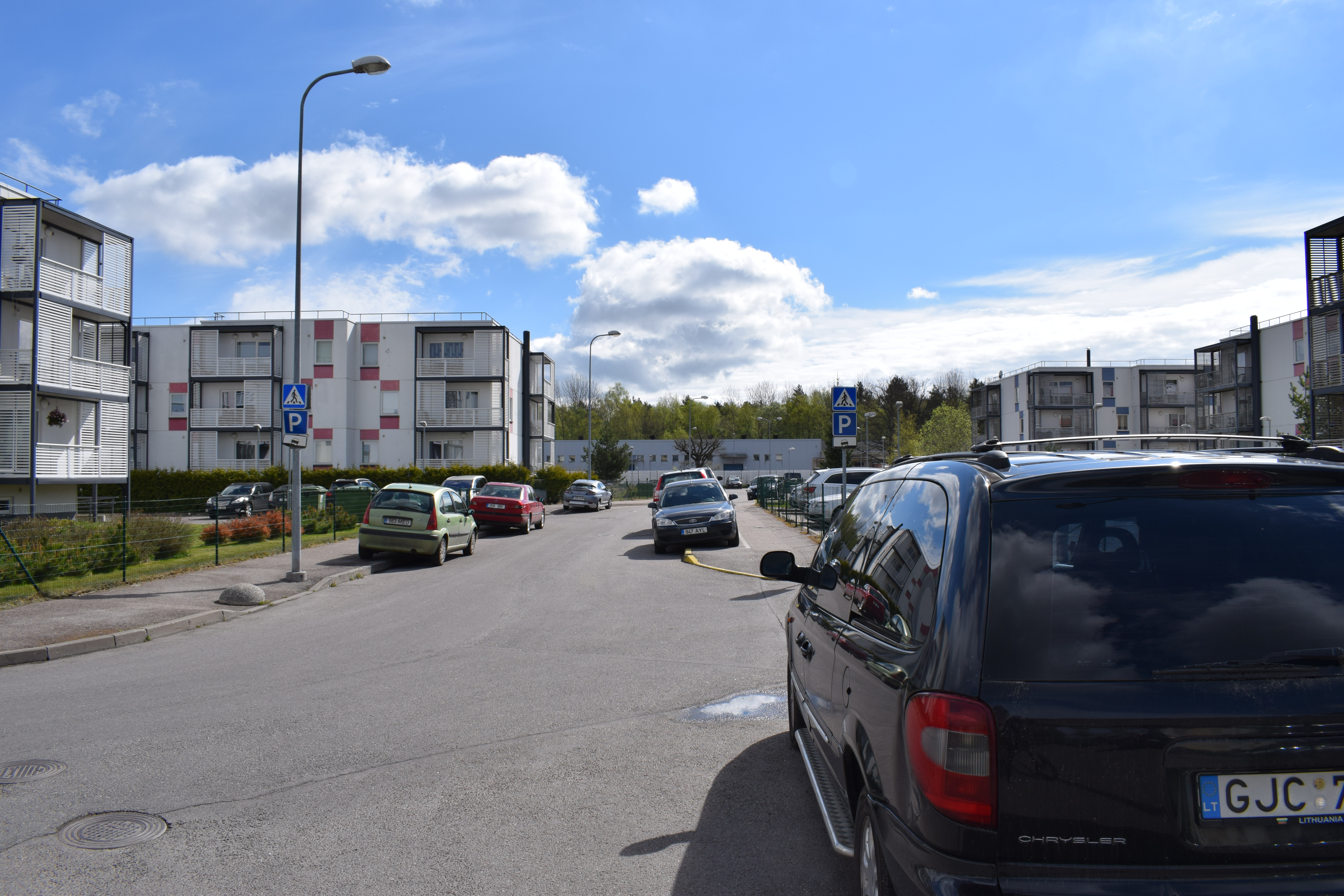 Pune street